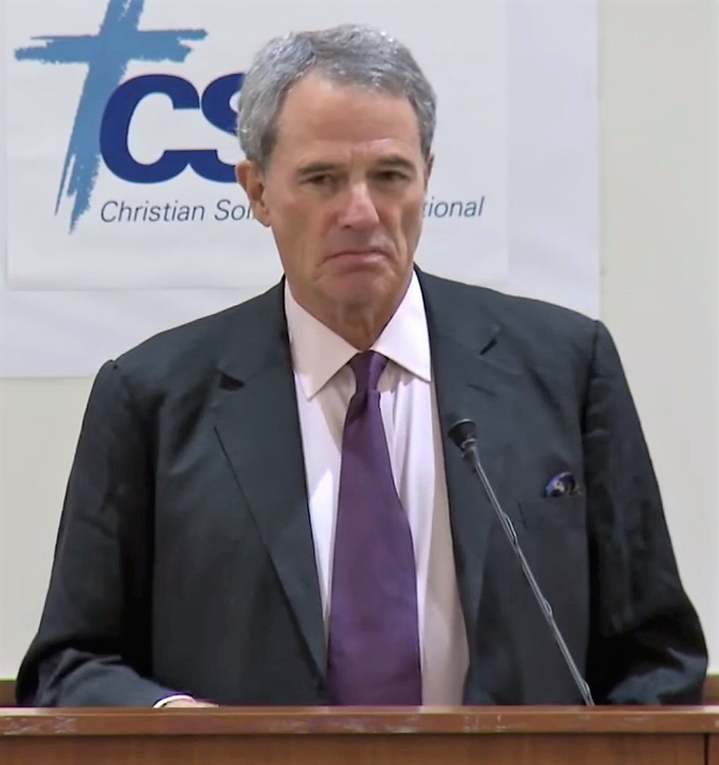 A Land of Many Flags: The Breakup of Syria and the Death of Pluralism - Charles Glass A Land of Many Flags: The Breakup of Syria and the Death of Pluralism A public lecture by Charles Glass Author of Syria Burning: ISIS and the Death of the Arab Spring (OR Books, 2015) Boston College, October 21, 2015 Christian Solidarity International (CSI) In cooperation with: Department of Slavic & Eastern Languages & Literatures Boisi Center for Religion and American Public Life Department of Political Science, Islamic Civilization and Societies Part of CSI’s lecture series “The Future of Religious Minorities in the Middle East”